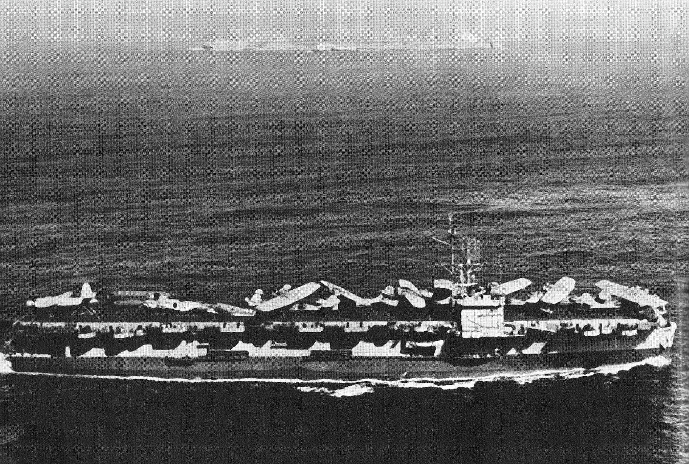 The U.S. Navy escort carrier USS Nehenta Bay (CVE-74) underway transporting aircraft, date and place unknown.